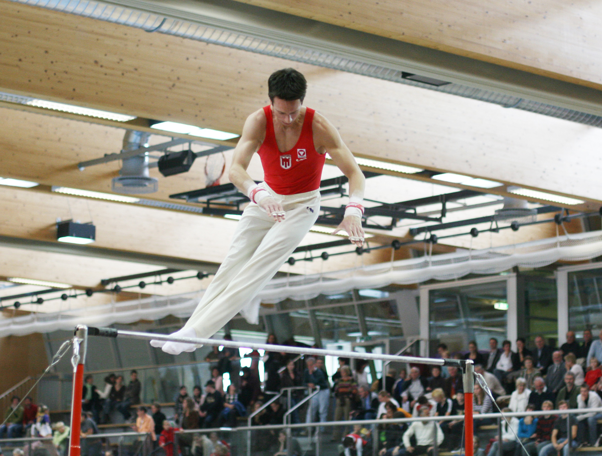 Artistic Gymnast Marco Baldauf (Austria) 2006 in Lustenau (Vorarlberg)